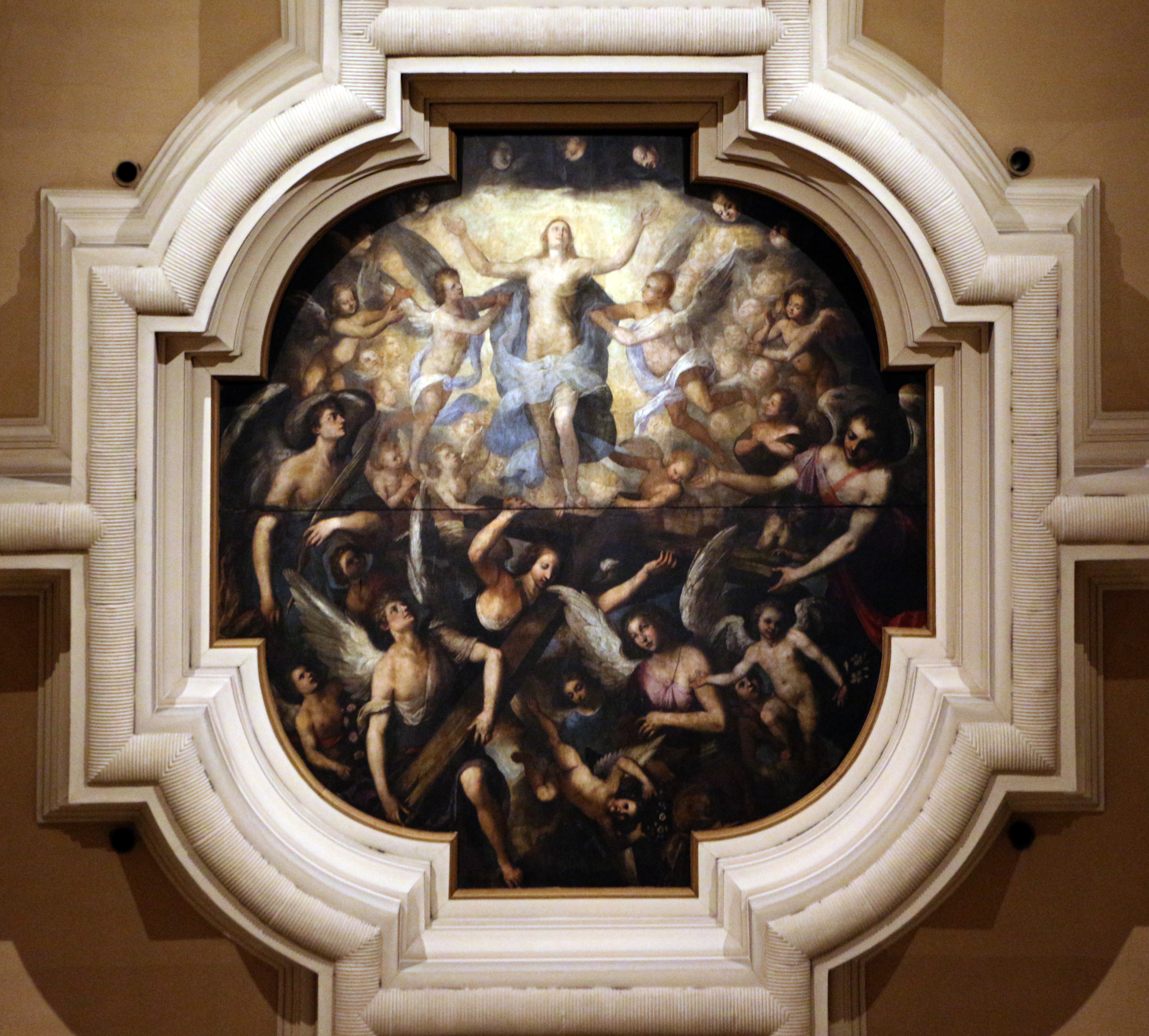 Duomo (Livorno) - Interior